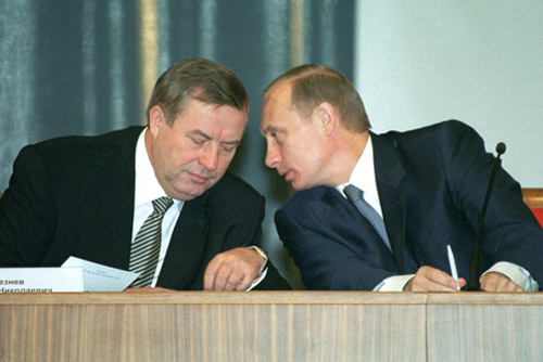 THE STATE KREMLIN PALACE, MOSCOW. President Putin with State Duma Speaker Gennady Seleznev during a plenary meeting of the Civil Forum.